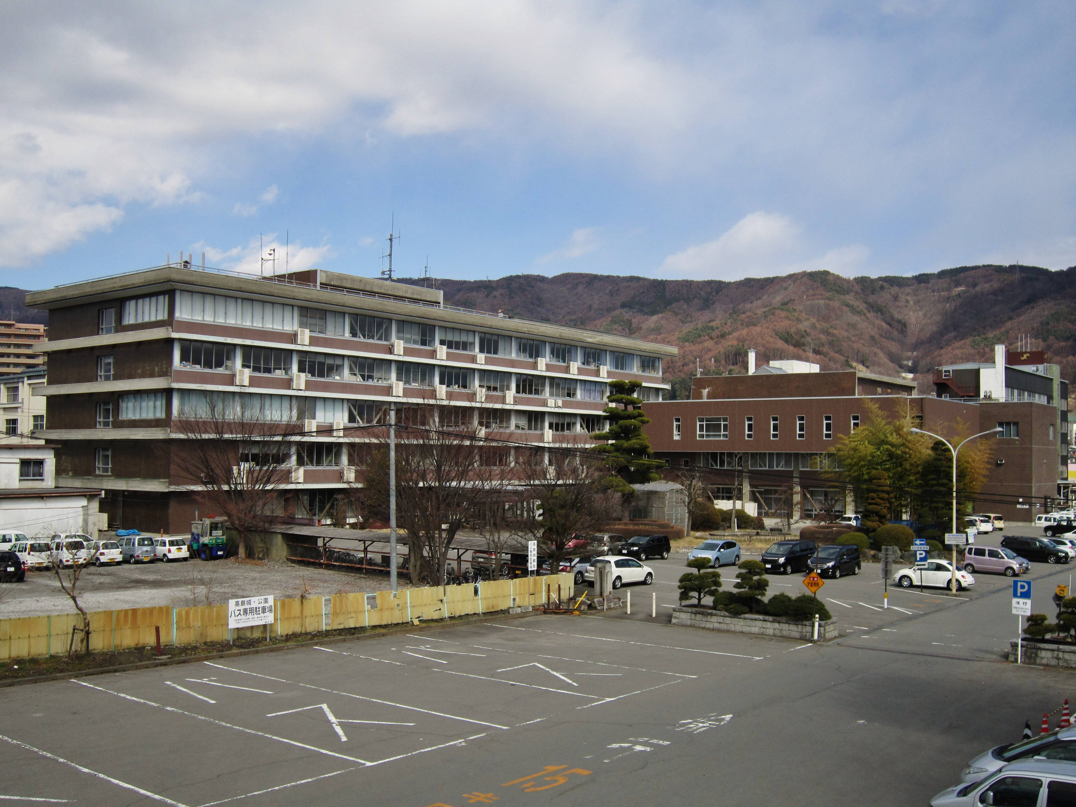 Suwa city office.